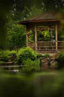 The gazebo offering a view on the water at the New-Brunswick Botanical Garden.